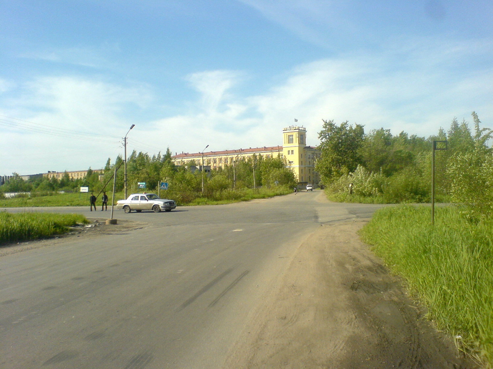 Metallostroy.